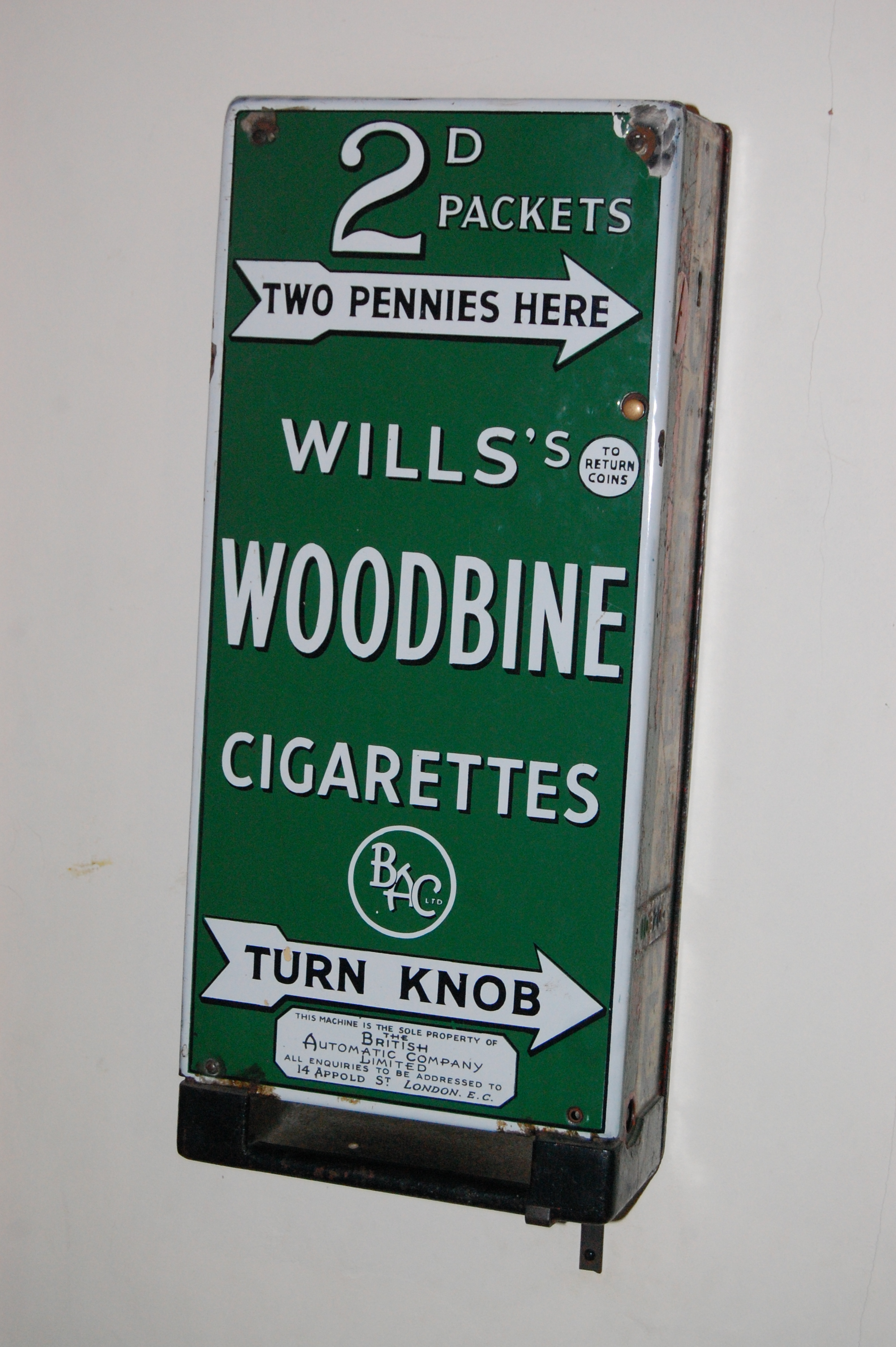 A cigarette vending machine, branded 'Wills Woodbine', now in the Staffordshire County Museum at Shugborough Hall, England.